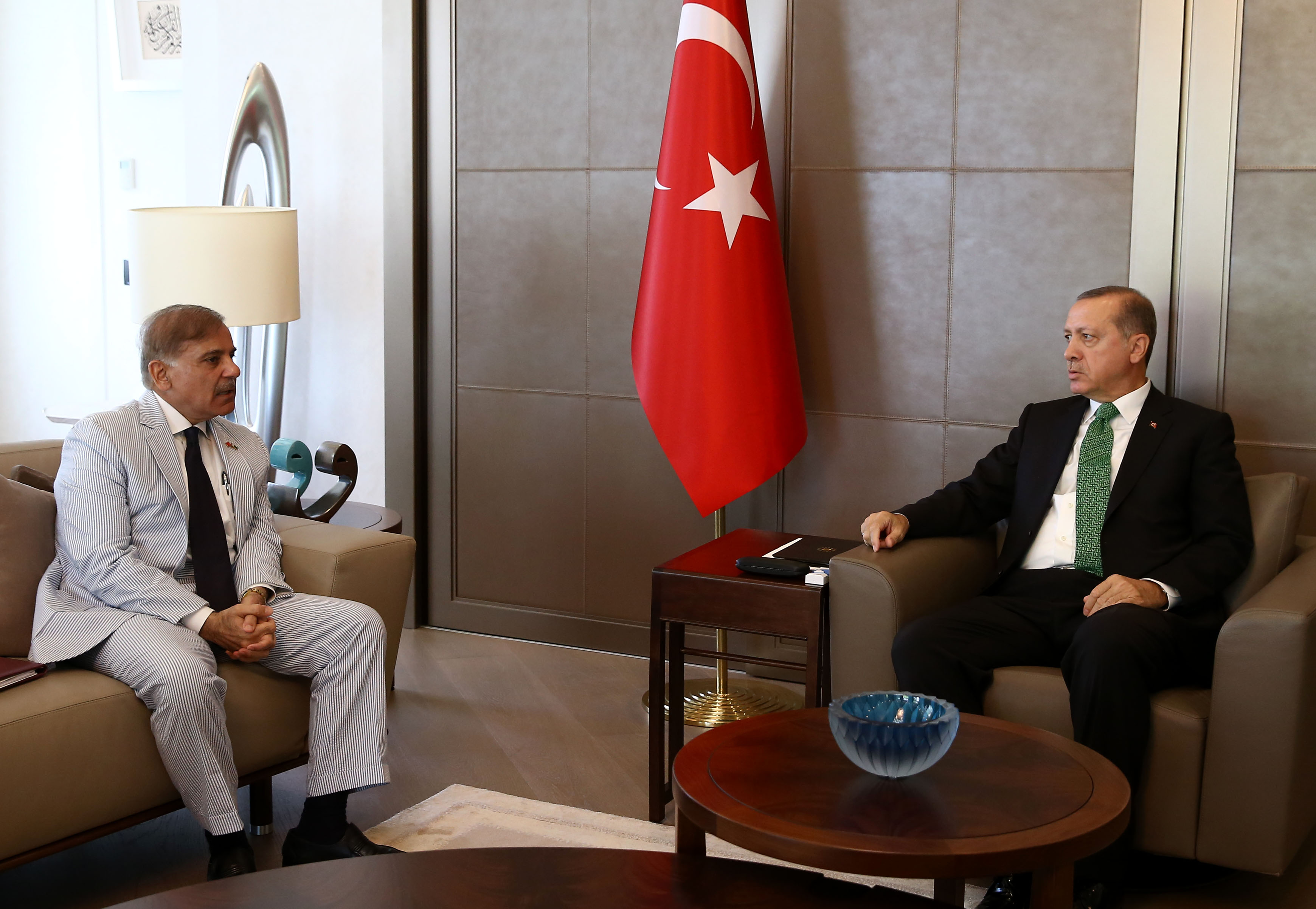 CM Shehbaz with Turkish President Recep Tayyip Erdoğan